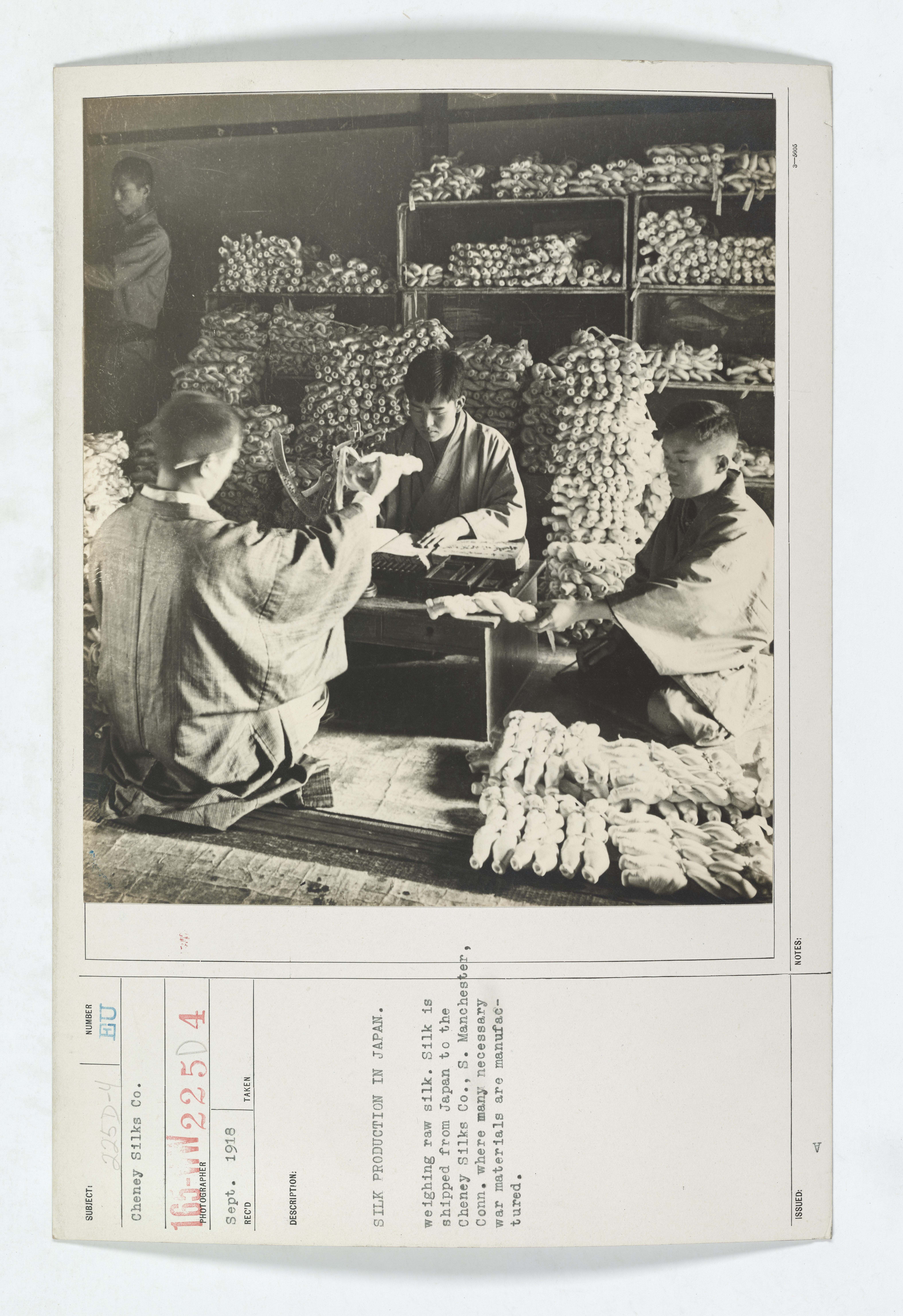 Scope and content: September 1918 photo of four Japanese men weighing bundles of raw silk, prior to the silk being exported to the Cheney Silks Company in South Manchester, Connecticut, USA.